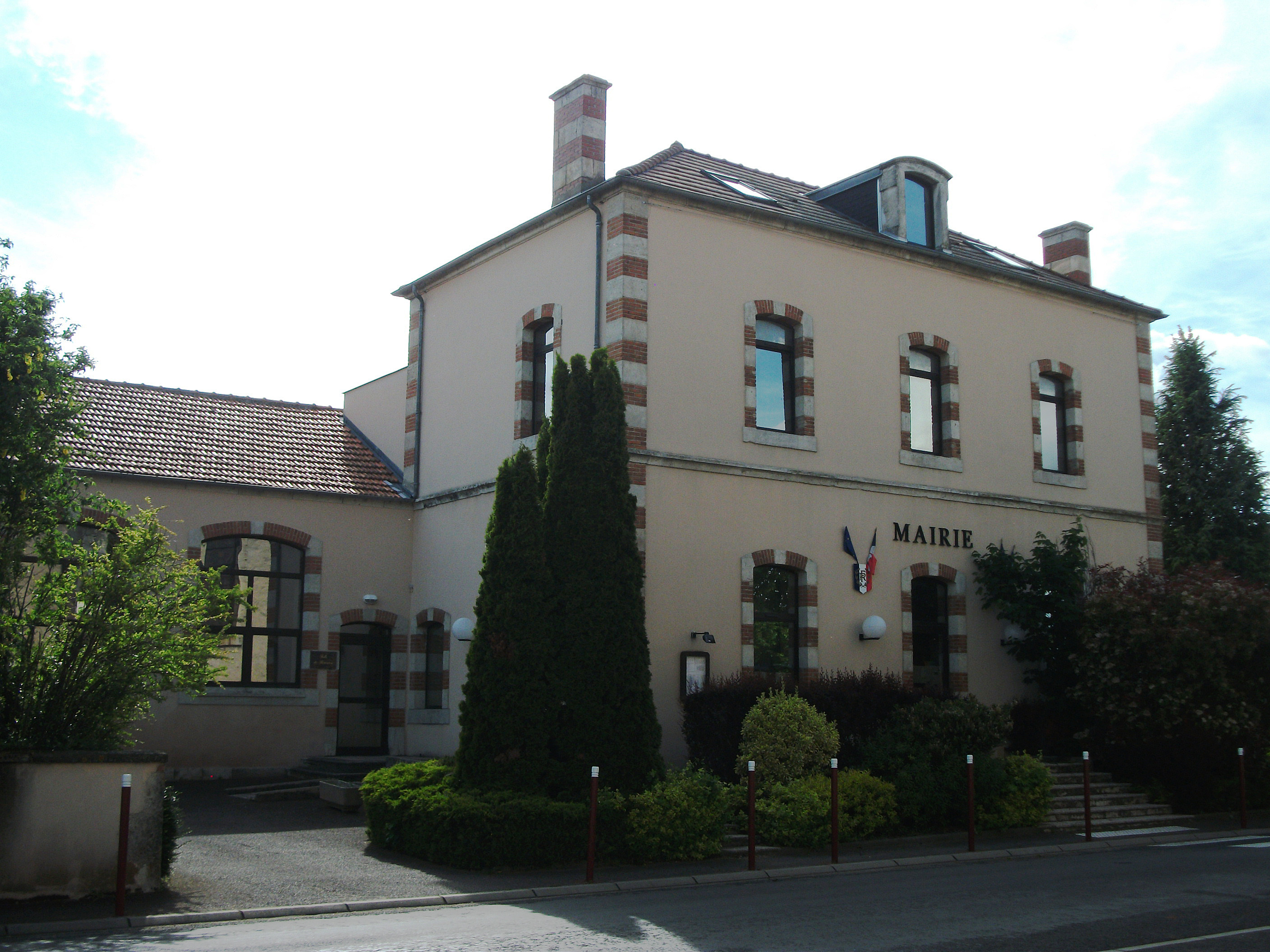 Town hall of Saint-Agoulin, Puy-de-Dôme, Auvergne-Rhône-Alpes, France [10866]